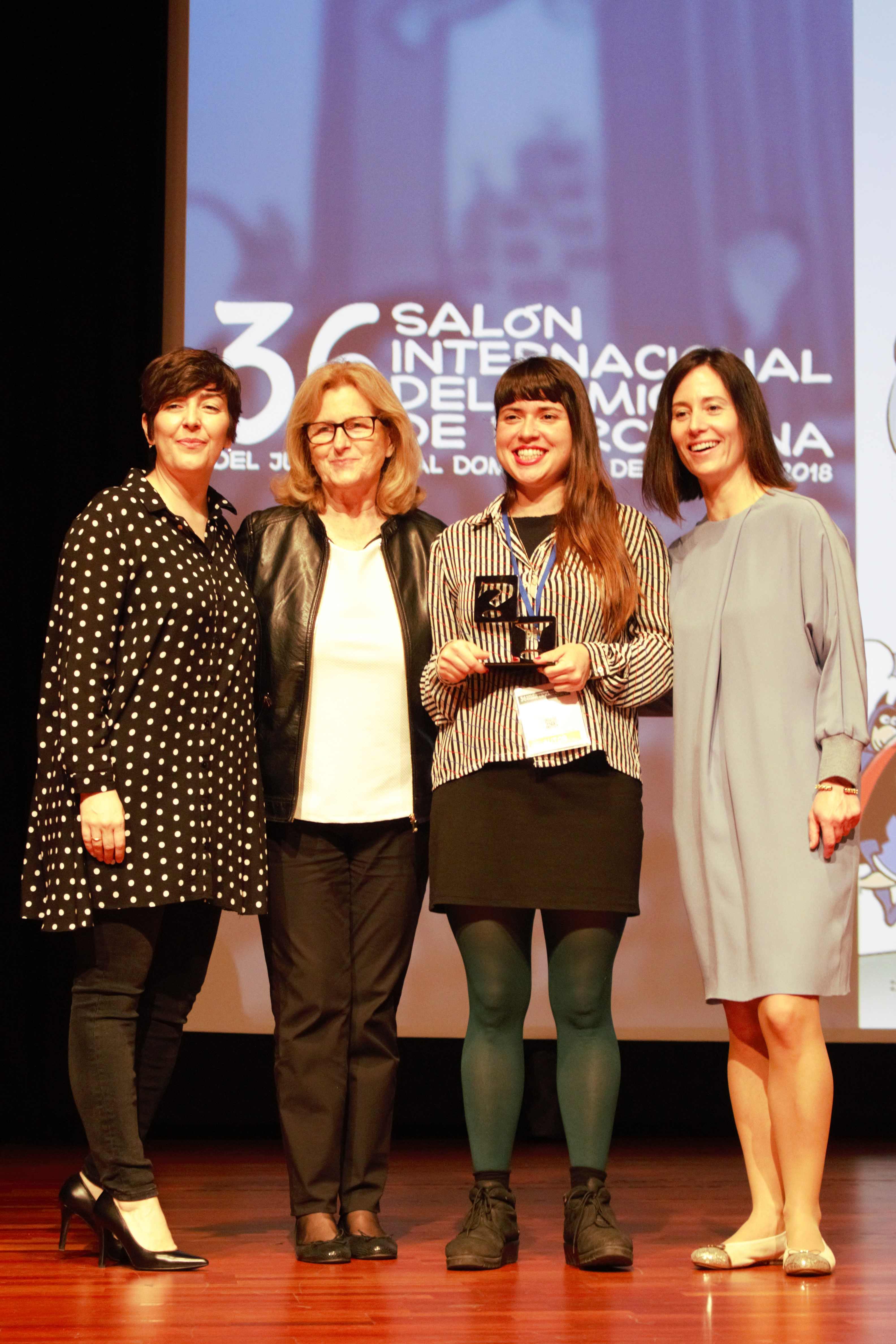 From left to right: Laura Barrachina, Rosa Laparra, Ana Penyas and Meritxell Puig. Comic awards ceremony. Barcelona International Comic Fair 2018.